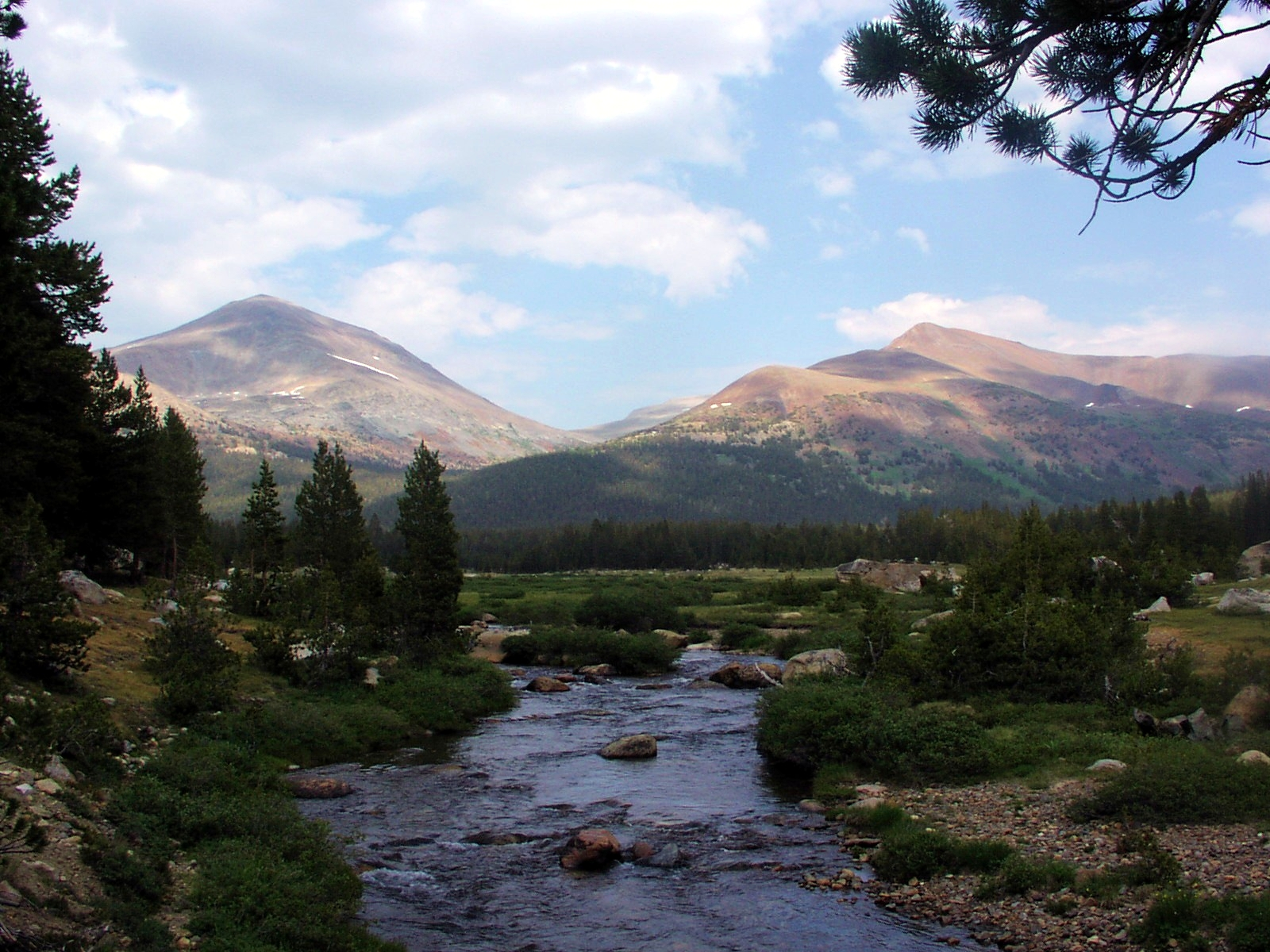 Dana Fork of the Tuolumne River, Yosemite National Park, California